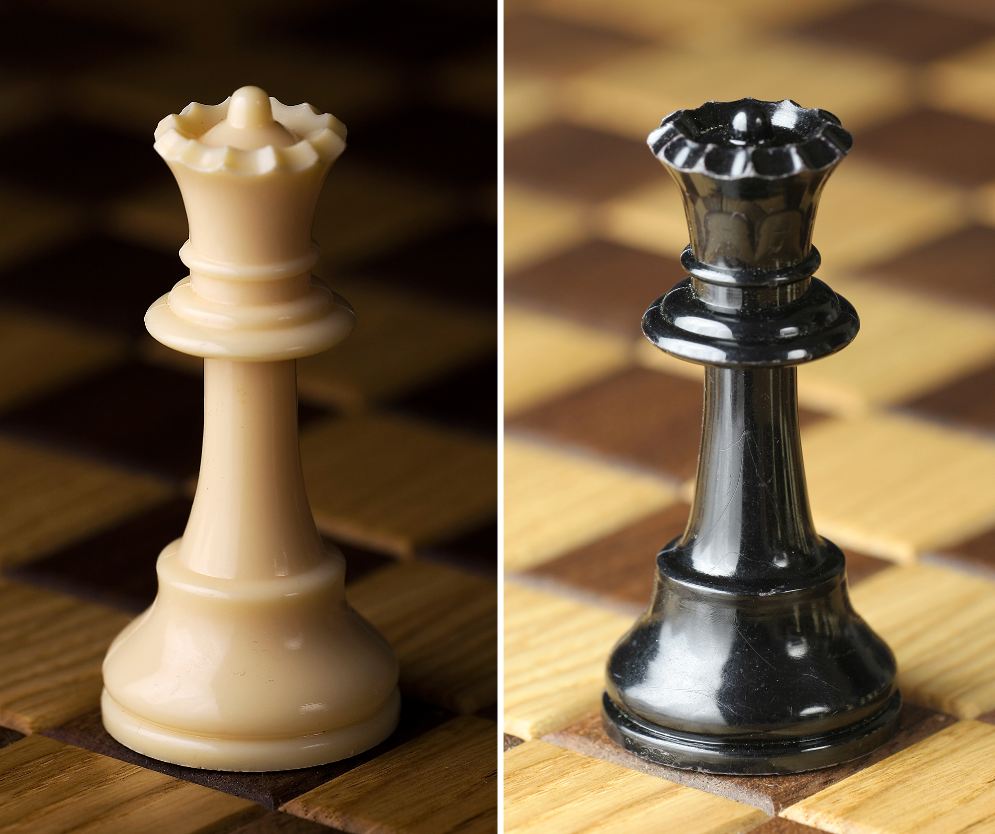 Chess pieces - White and Black queen, Staunton design